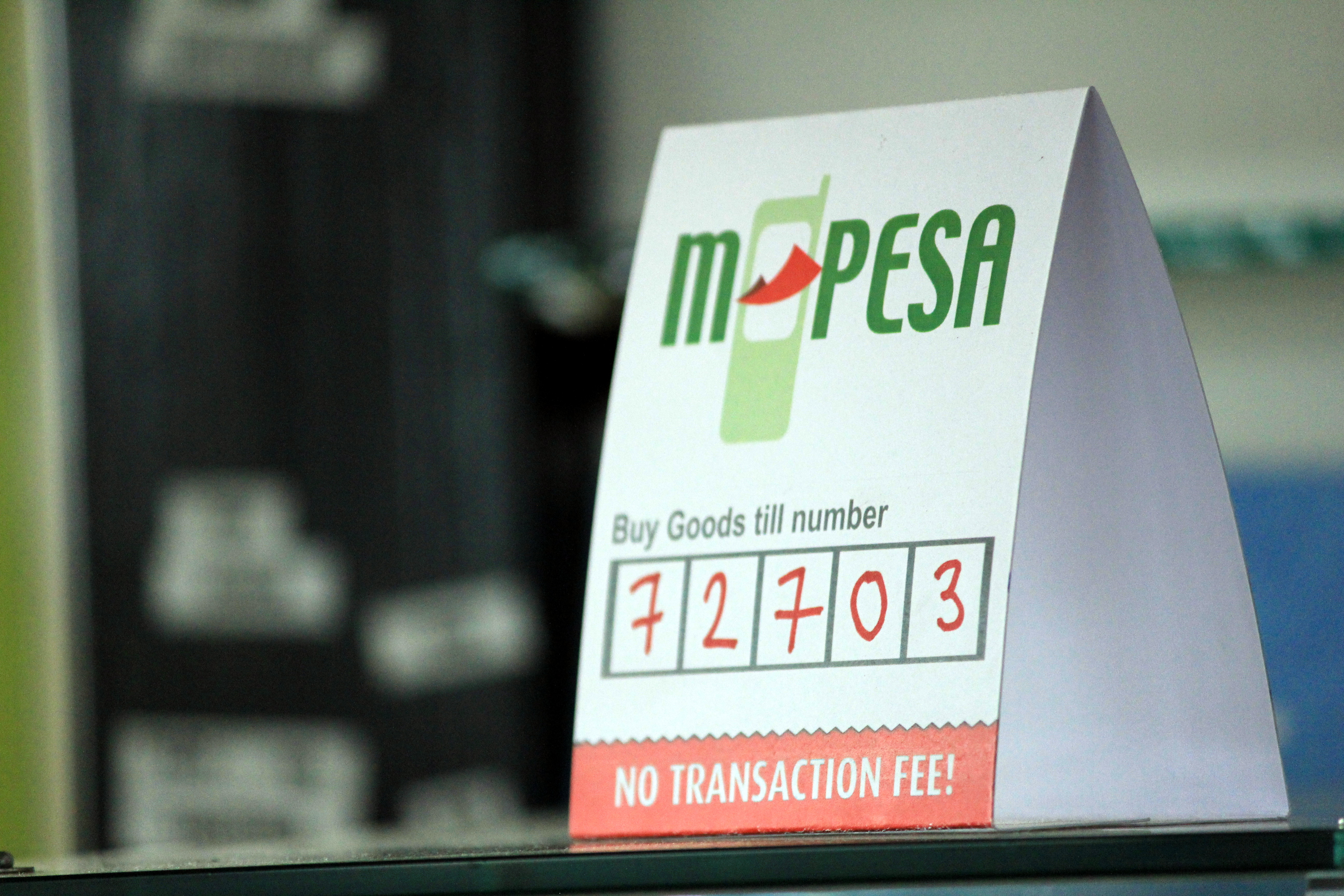 M-Pesa is the most successful mobile money payment/transfer service in the world. This picture is taken at a restaurant that allows you to use M-Pesa for payment.